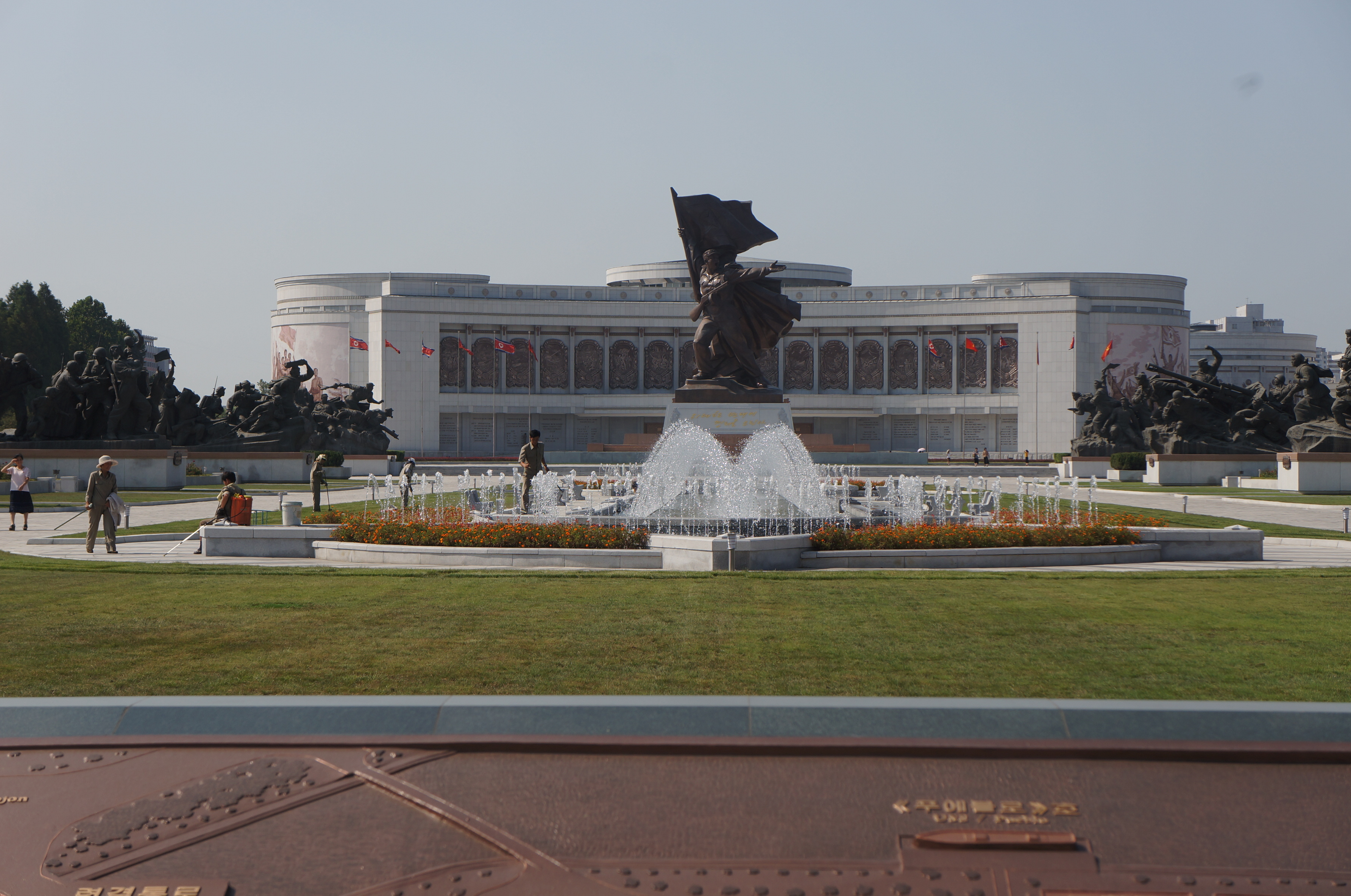 Renovated in July 2013